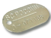 Dog tag (identifier)